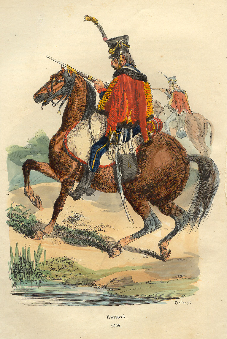 French hussard of Napoleon troops in 1809 (4-th regiment). From book of P.-M. Laurent de L`Ardeche «Histoire de Napoleon», 1843